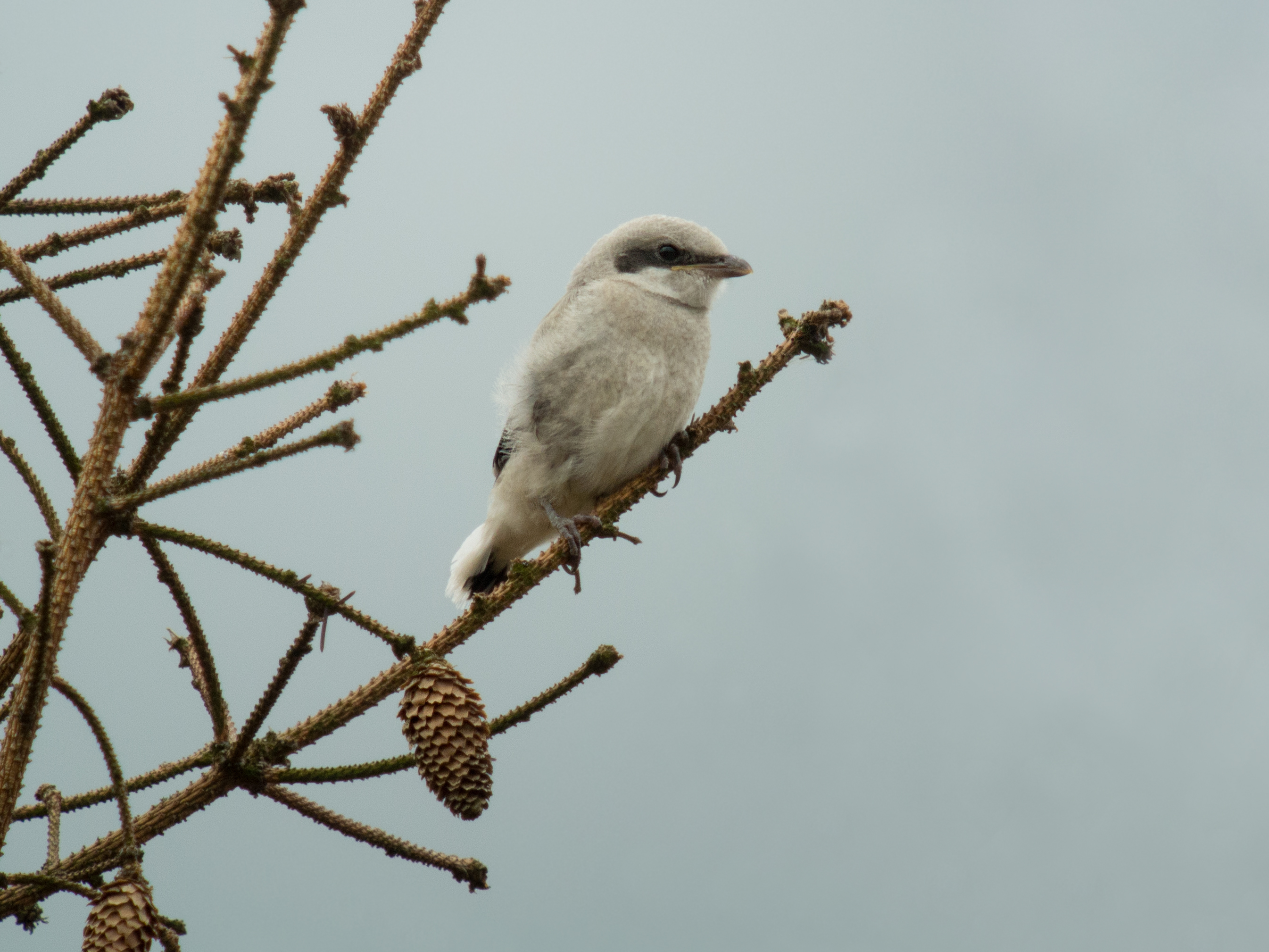 Juvenile Great Grey Shrike Lanius excubitor excubitor at Sourbrodt, Belgium. Photograph taken by digiscoping with Swarovski ATM 80 HD 30 X, Nikon 1V1 + 10-30 mm lens (Adapter DCB)